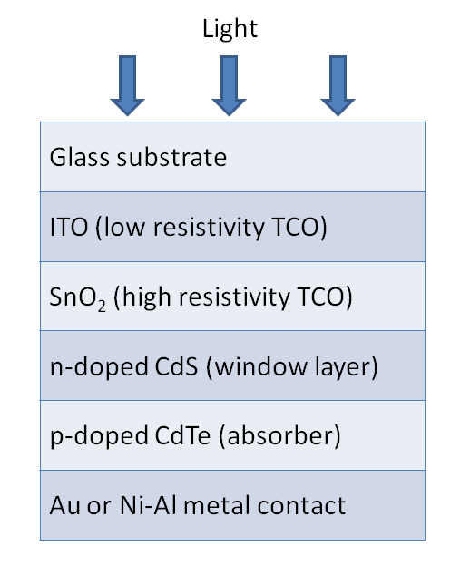 Cross-section of a CdTe thin film solar cell. Based on Chopra et al., Progress in Photovoltaics 2004, 12, 69-92.